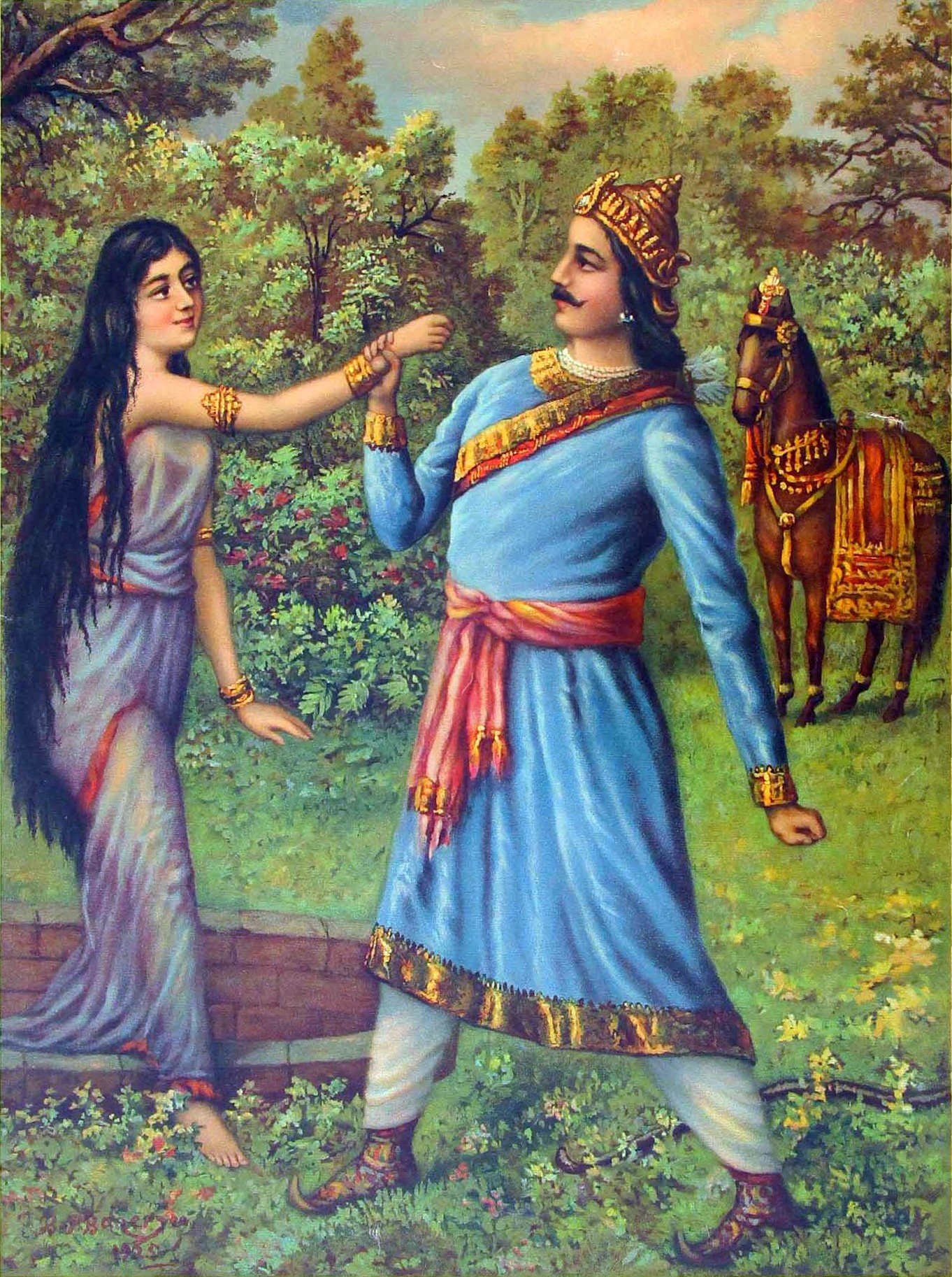 DEVJANI RESCUED FROM THE WELL